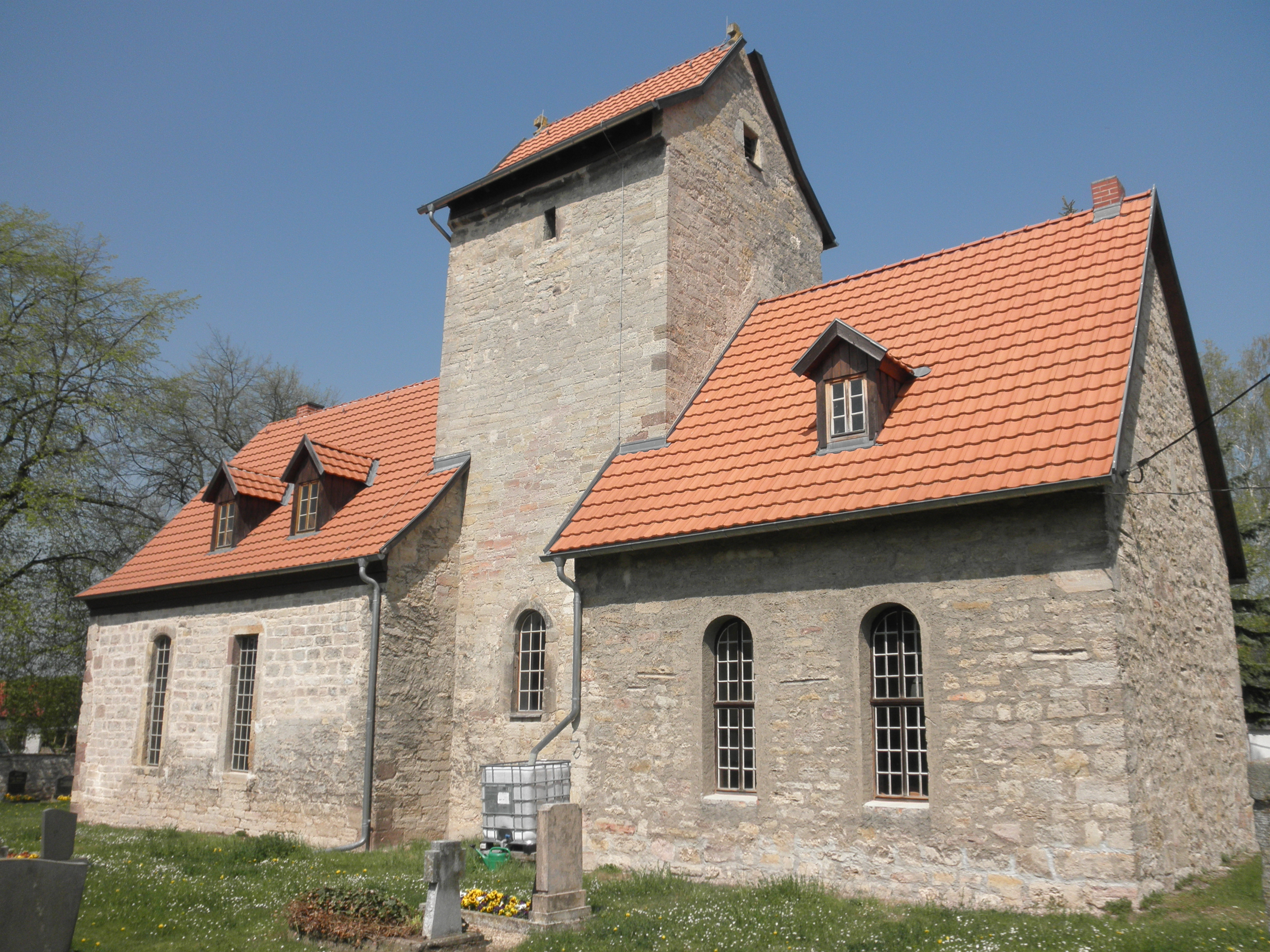 Church in Treppendorf in Thuringia